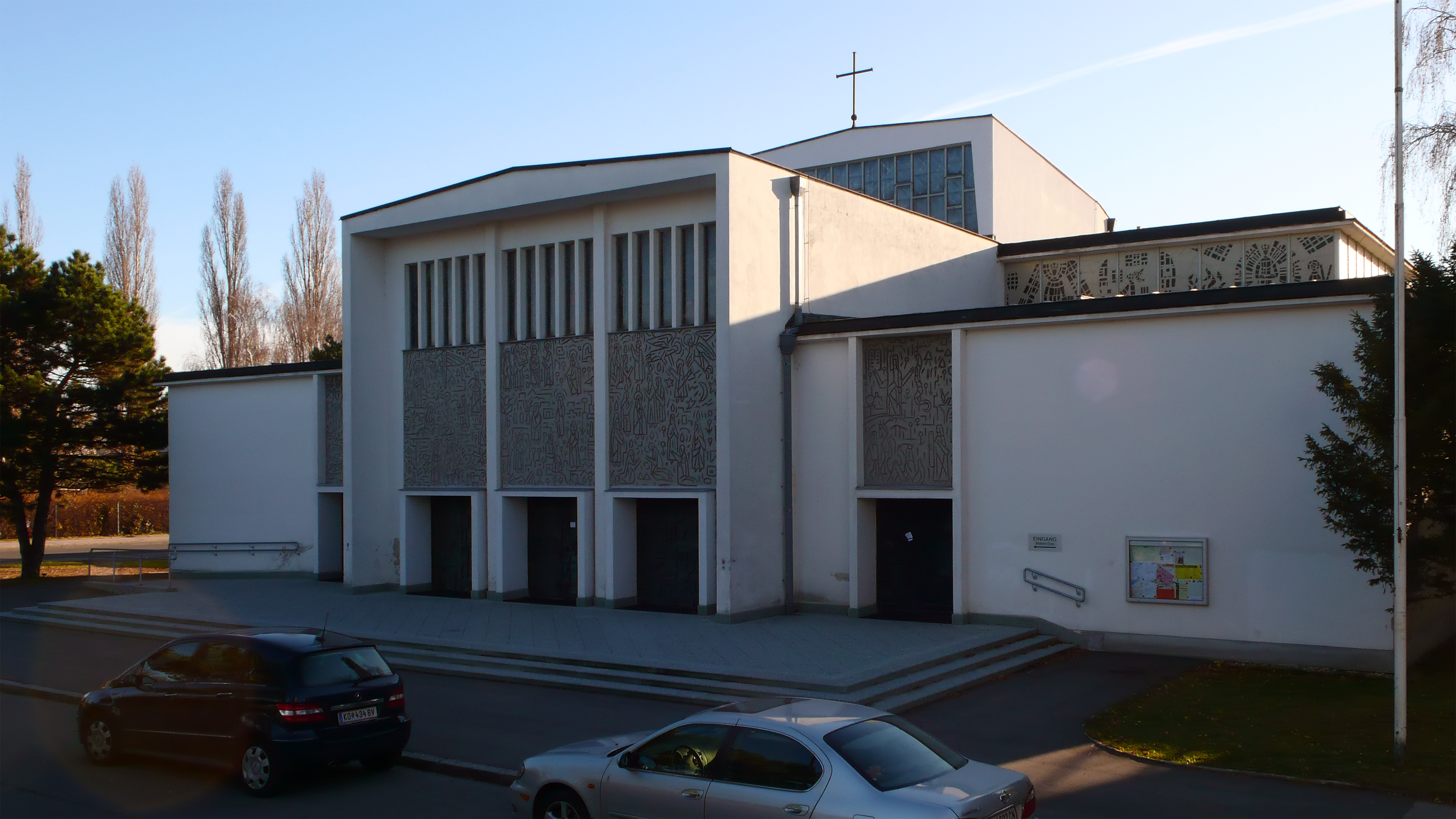 Pfarrkirche Maria Königin (Strebersdorf) in Vienna Floridsdorf